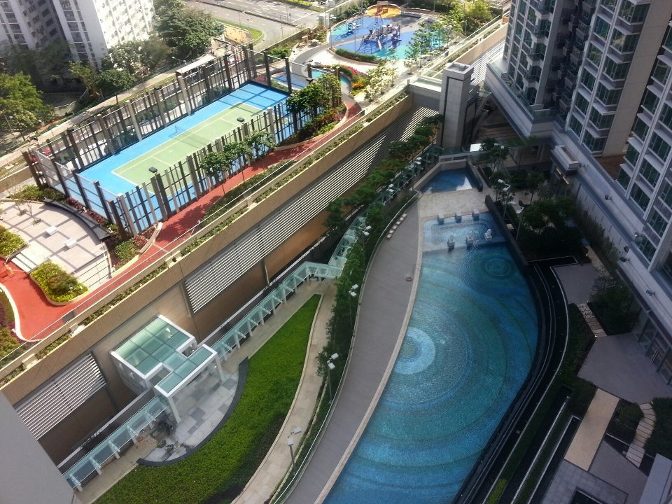 The Riverpark Podium Facilities